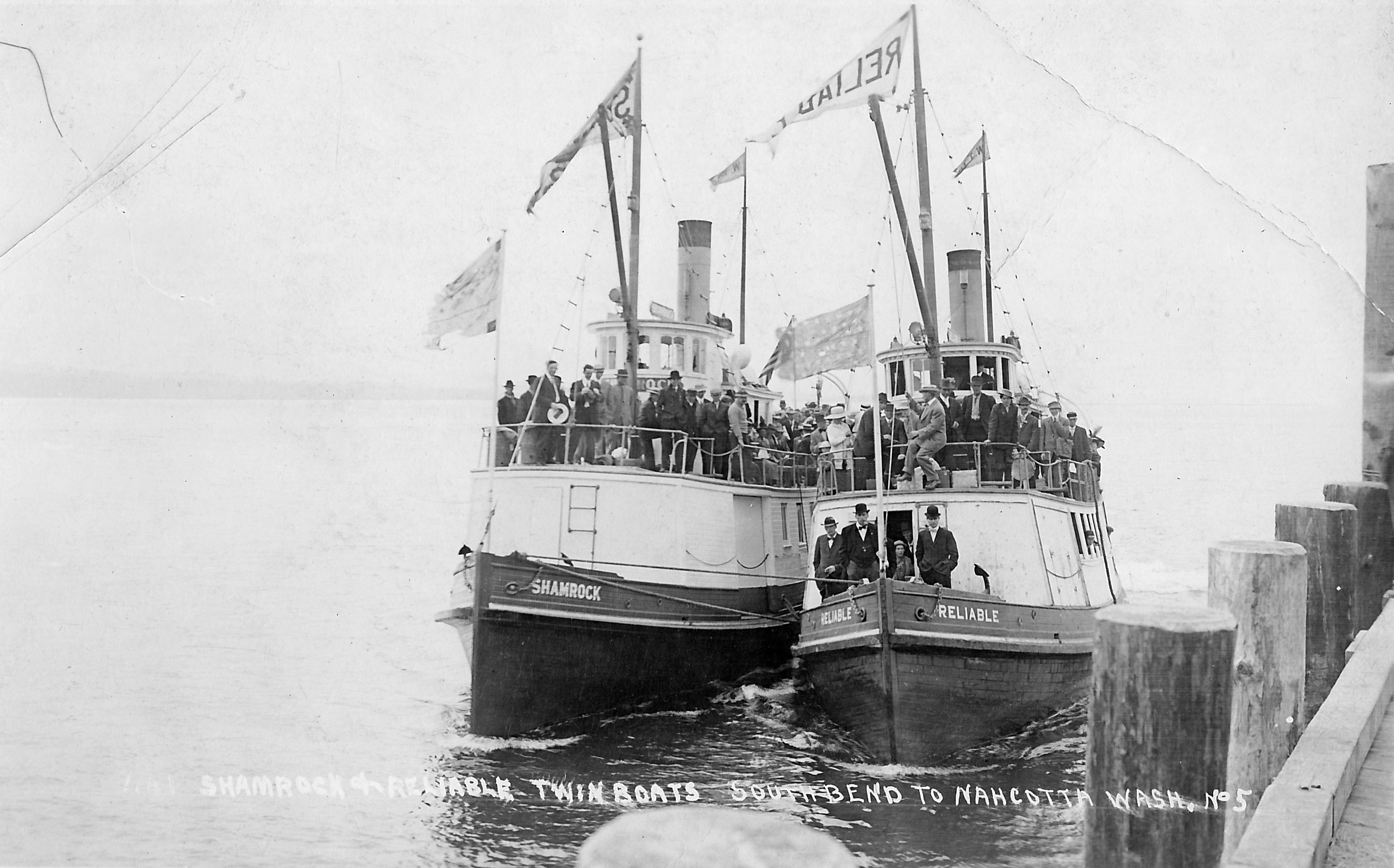 Two of the steamboats that plied Willapa Bay between South Bend, Washington and Nahcotta, Washington. 1902 - 1925